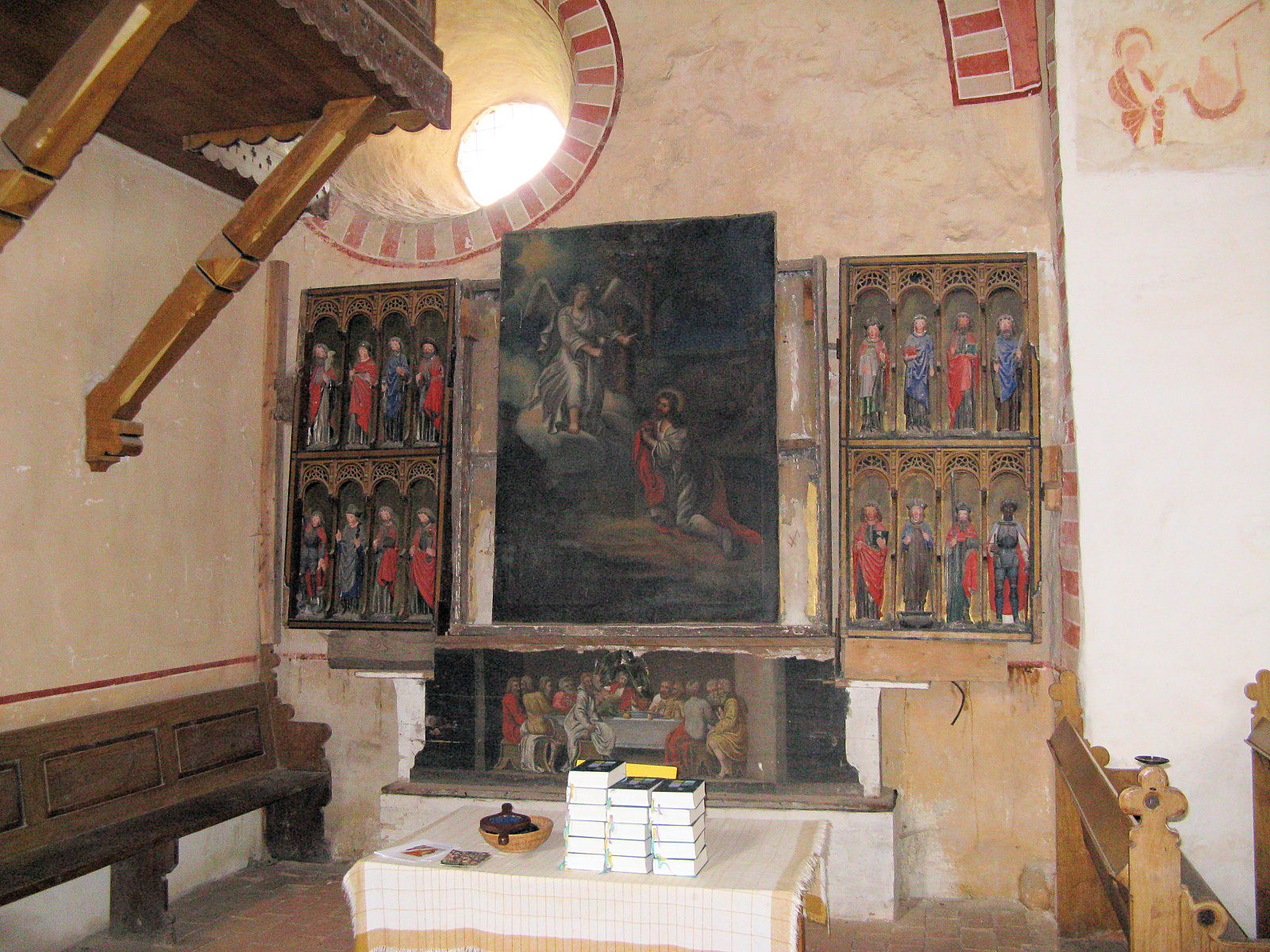 Polyptych ceiling in the church in Bellin, disctrict Güstrow, Mecklenburg-Vorpommern, Germany